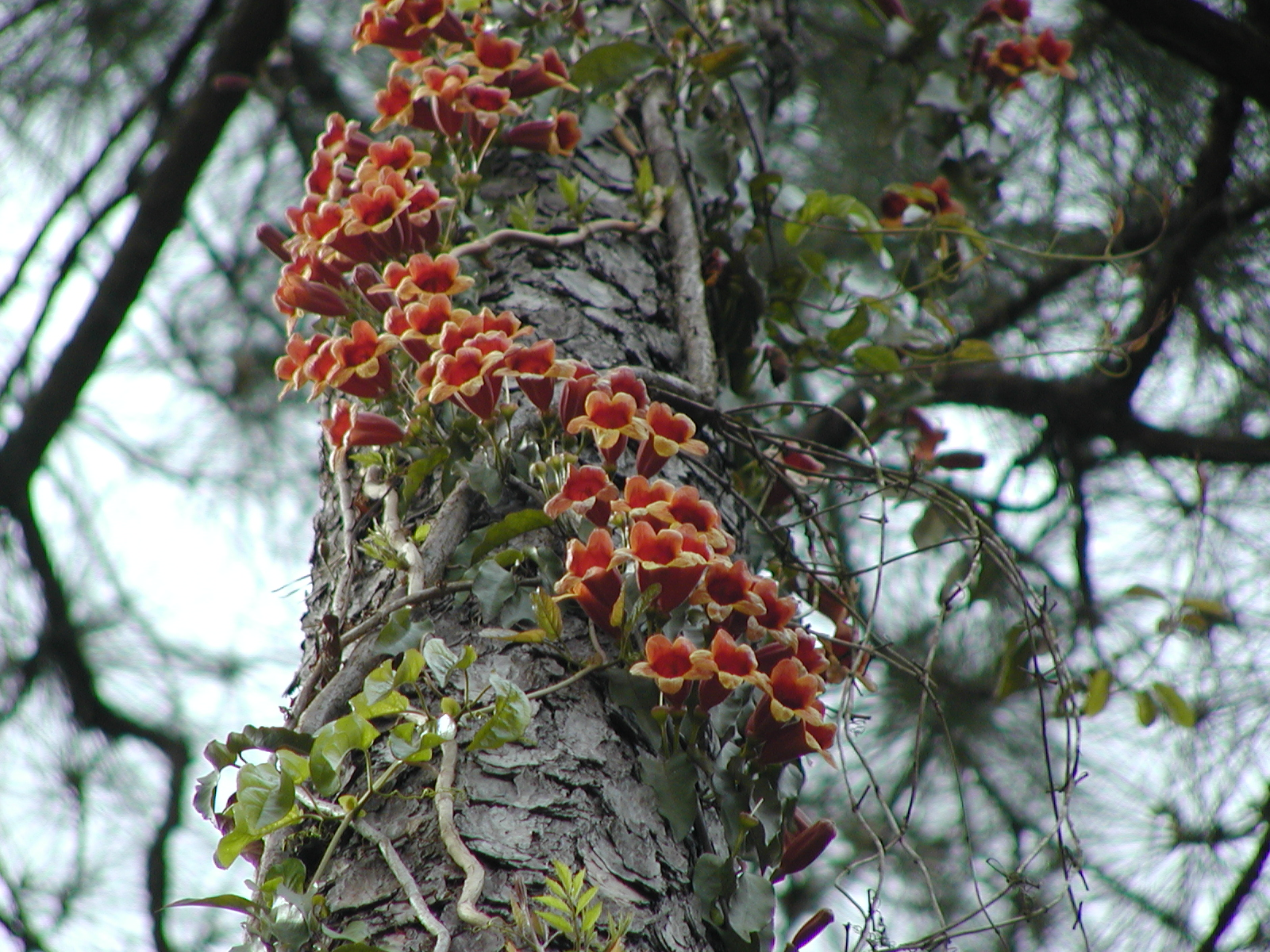 Cross Vine (Bignonia capreolata) growing up a pine tree. Taken in Huffman, TX